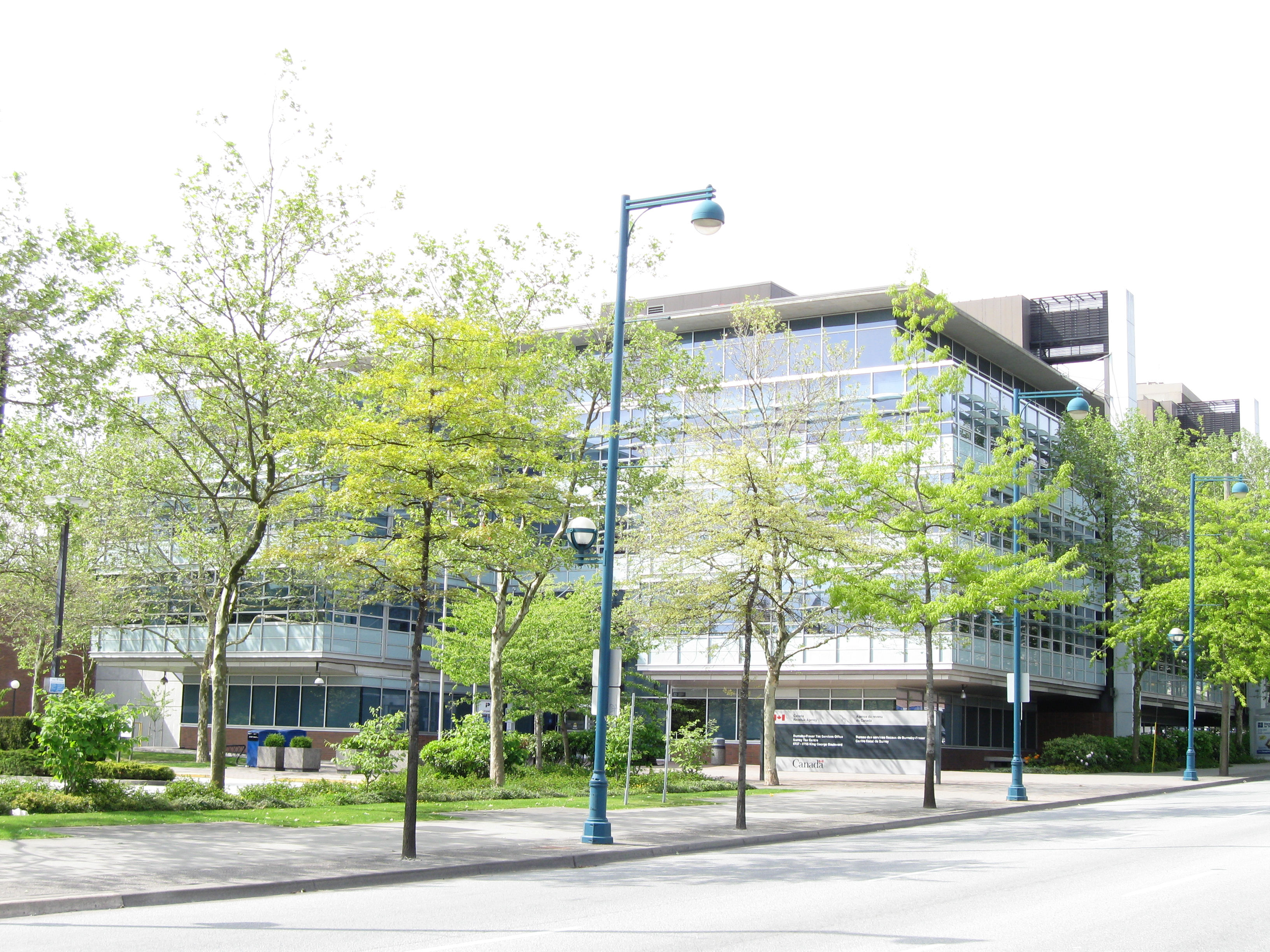 A view of the imposing Canada Revenue Agency's Burnaby-Fraser Tax Services office located within the Surrey Tax Centre. Its street address is 9737 King George Boulevard/Highway in the City of Surrey, BC, Canada.